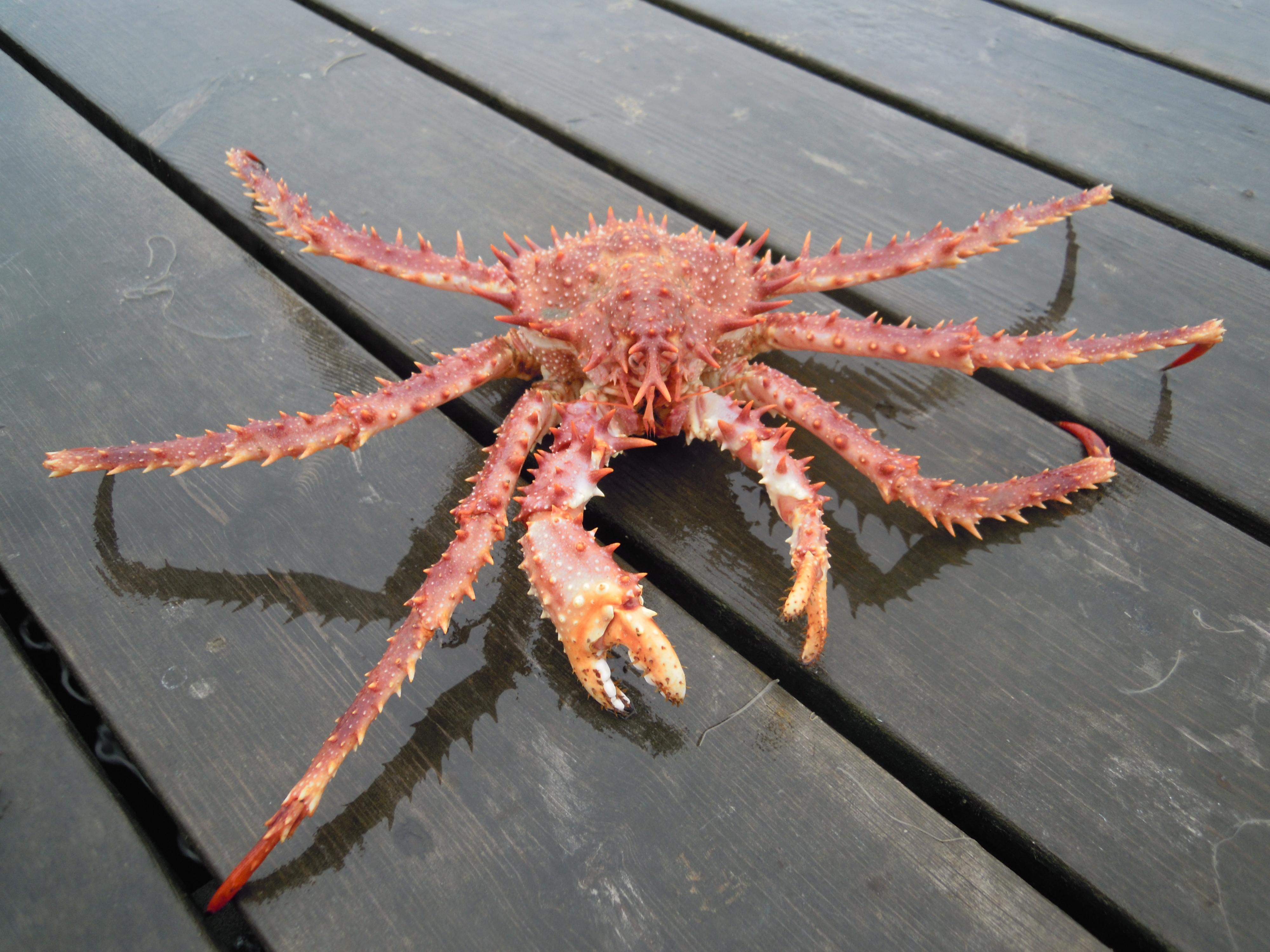 Lithodes maja - a species of Lithodes maja. 46 cm from one tip of a foot to the other side. Stavern, Norway. You are free to use this picture outside Wikipedia (see license), as long as you write: Photo: Arnstein Rønning